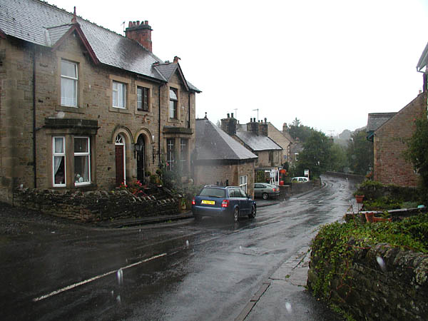 High Street, Gilsland, England